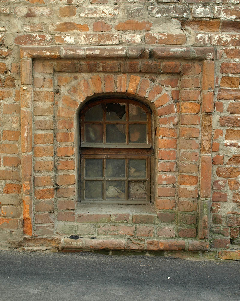 Moscow, Kolpachny Lane, 10 (courtyard facade of Mazepa Chamber) - basement windows.